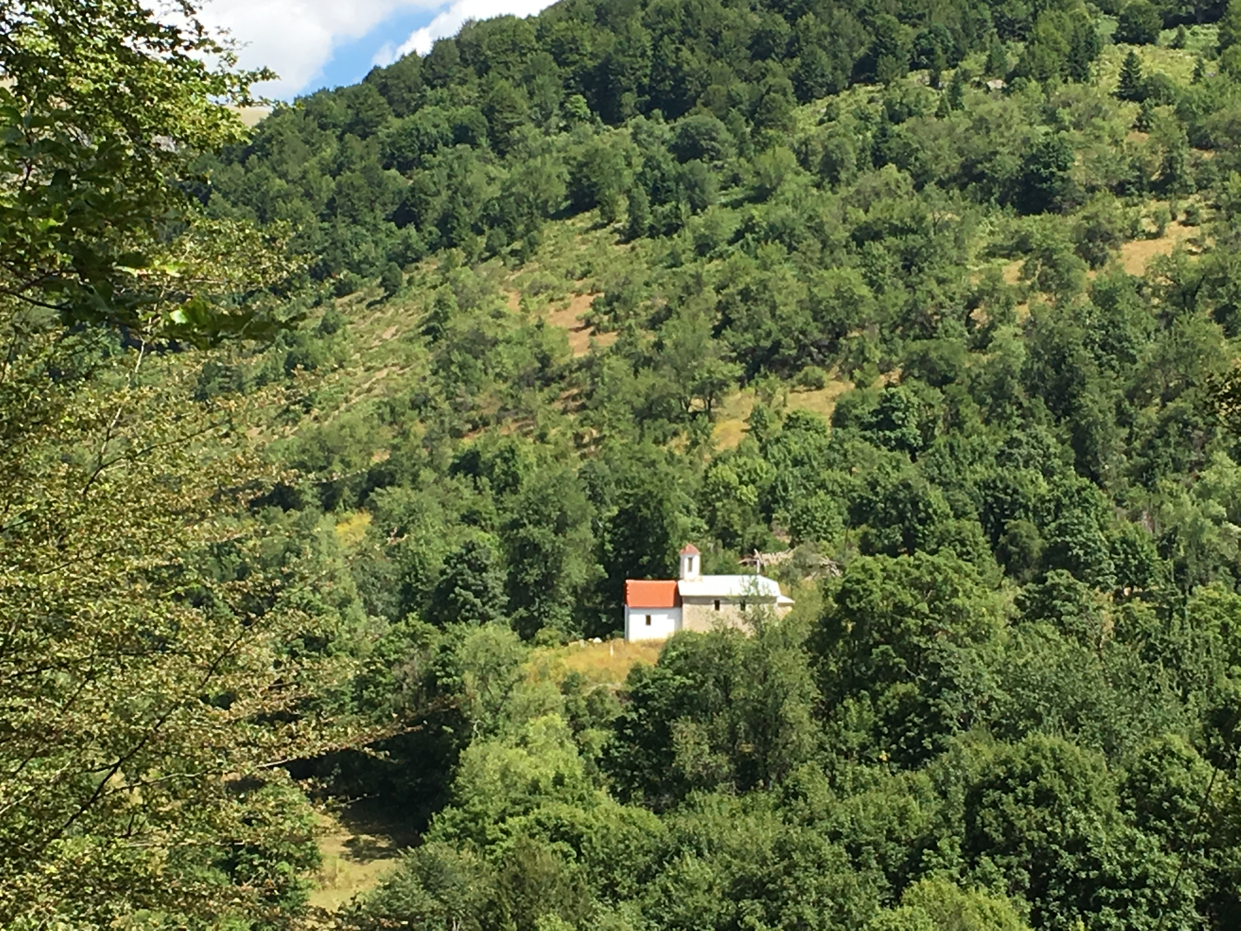 St. Demetrius Church in the village of Bogdevo